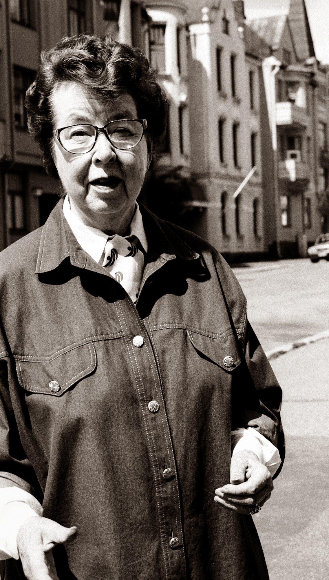 Finnish theater director Vivica Bandler pictured in Huvilakatu, Helsinki, Finland, July 1997.